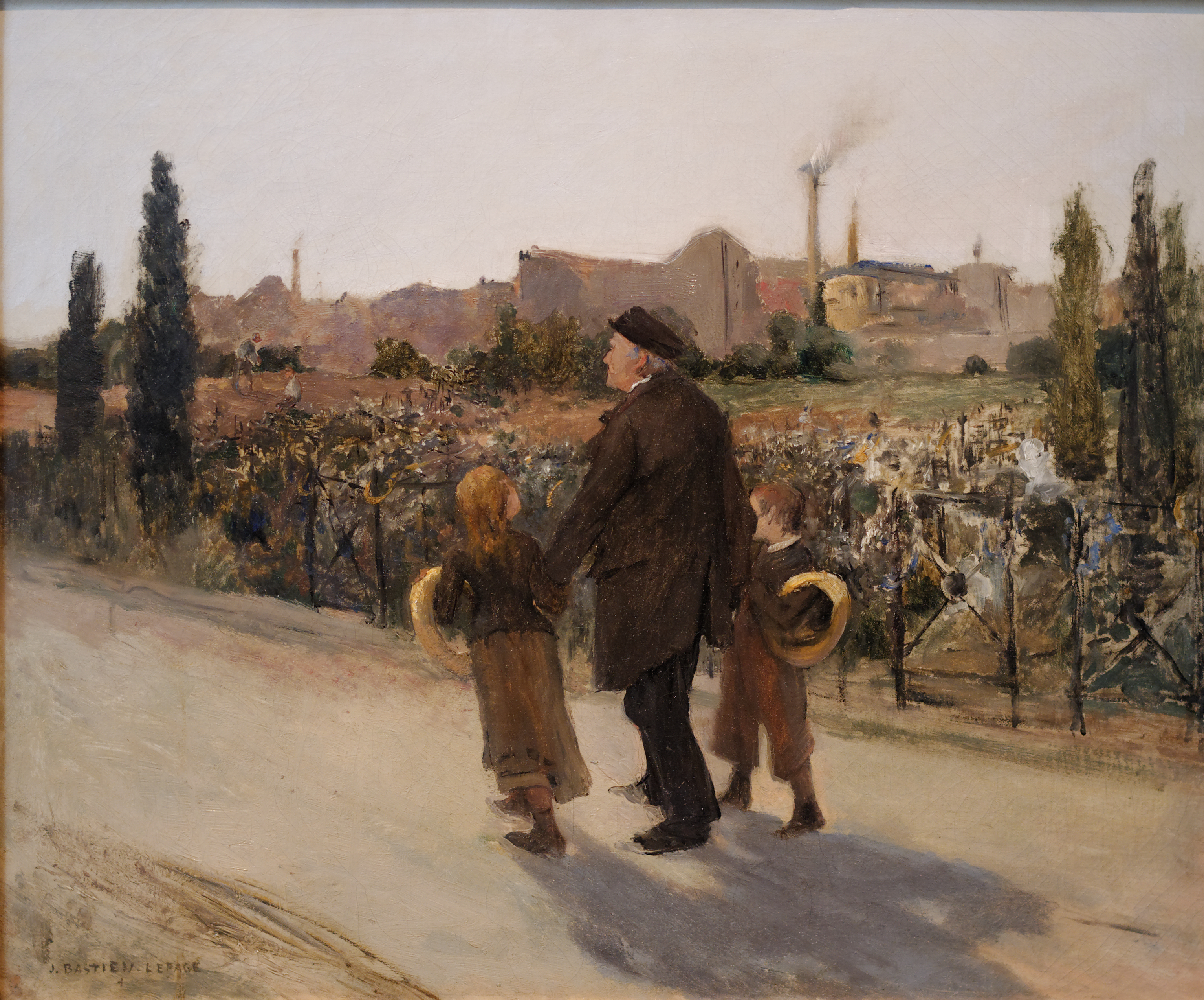 All Souls'Day, Jules Bastien-Lepage (1878). Museum of Fine Arts, Budapest Inv. N°408 B. Transfer of Friends of Art Museum, 1935